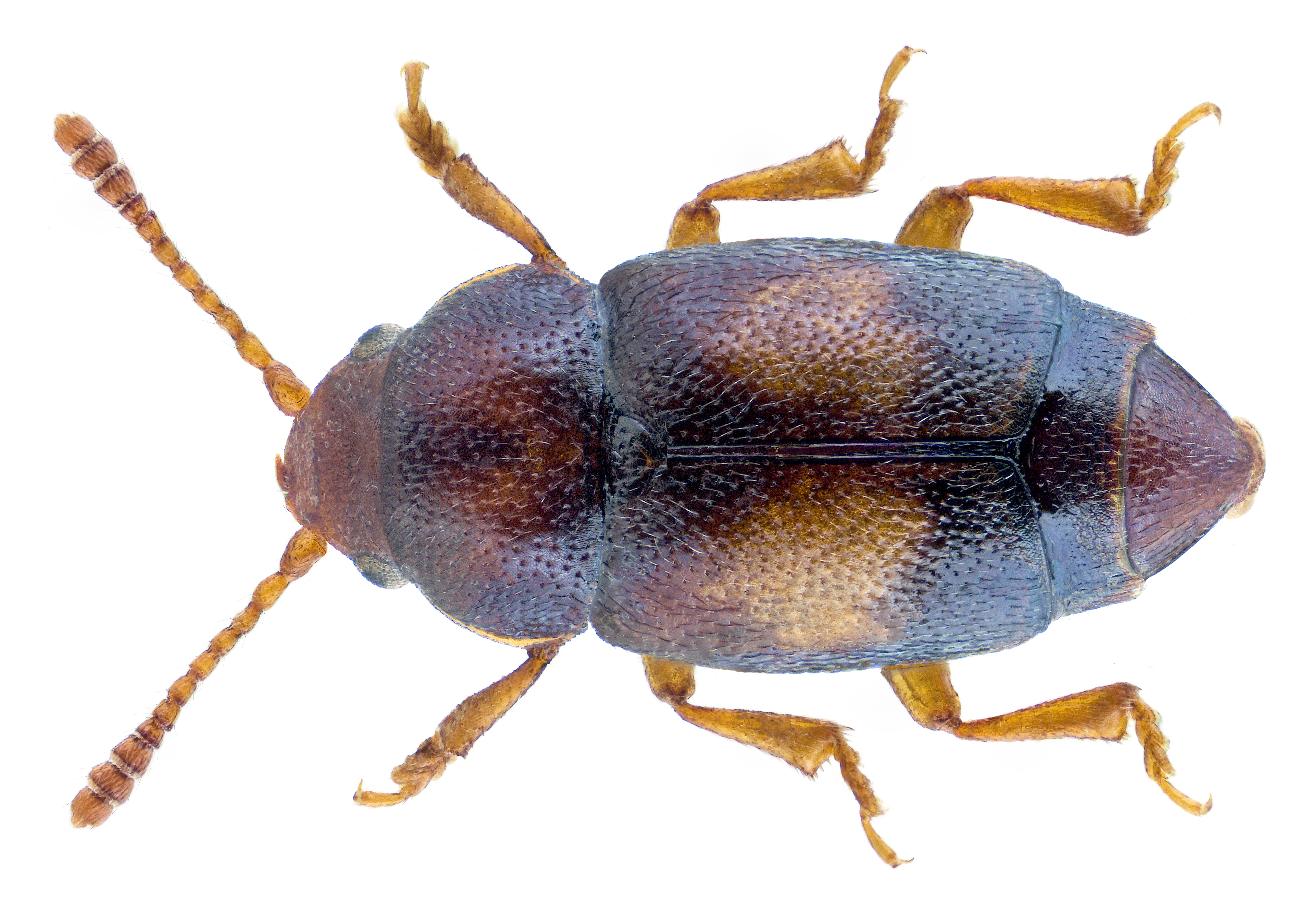 Family: Kateretidae (Nitidulidae) Size: 2.6 mm (1.6 to 3.0 mm) Origin: Europe Ecology: in moist habitats, on sedges but also on flowers Location: Germany, Bavaria, Niederbayern, Deggendorf, Donau valley leg.det. U.Schmidt, 7.V.1978 Photo: U.Schmidt, 2017